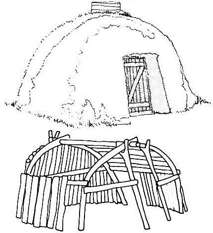 A coastal sami peat goahti with its framework, from Finnmark, Norway